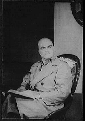 Portrait of Thornton Wilder, as Mr. Antrobus in "The Skin of Your Teeth". Van Vechten, Carl, 1880-1964, photographer. Created/Published 1948 Aug. 18. Notes Title derived from information on verso of photographic print. Van Vechten number: XXV EE 11. Gift; Carl Van Vechten Estate; 1966. Forms part of: Portrait photographs of celebrities, a LOT which in turn forms part of the Carl Van Vechten photograph collection (Library of Congress). Subjects Wilder, Thornton,--1897-1975. Portrait photographs. Medium 1 photographic print : gelatin silver. Call Number LOT 12735, no. 1187 REPRODUCTION NUMBER LC-USZ62-42494 DLC (b&w film copy neg.) Special Terms of Use For publication information see "Carl Van Vechten Photographs (Lots 12735 and 12736)" Part of Van Vechten, Carl, 1880-1964. Portrait photographs of celebrities Repository Library of Congress Prints and Photographs Division Washington, D.C. 20540 USA Digital ID (intermediary roll film) van 5a52786 (b&w film copy neg.) cph 3a42812 of Thornton Wilder, as Mr. Antrobus in "The Skin of Your Teeth"